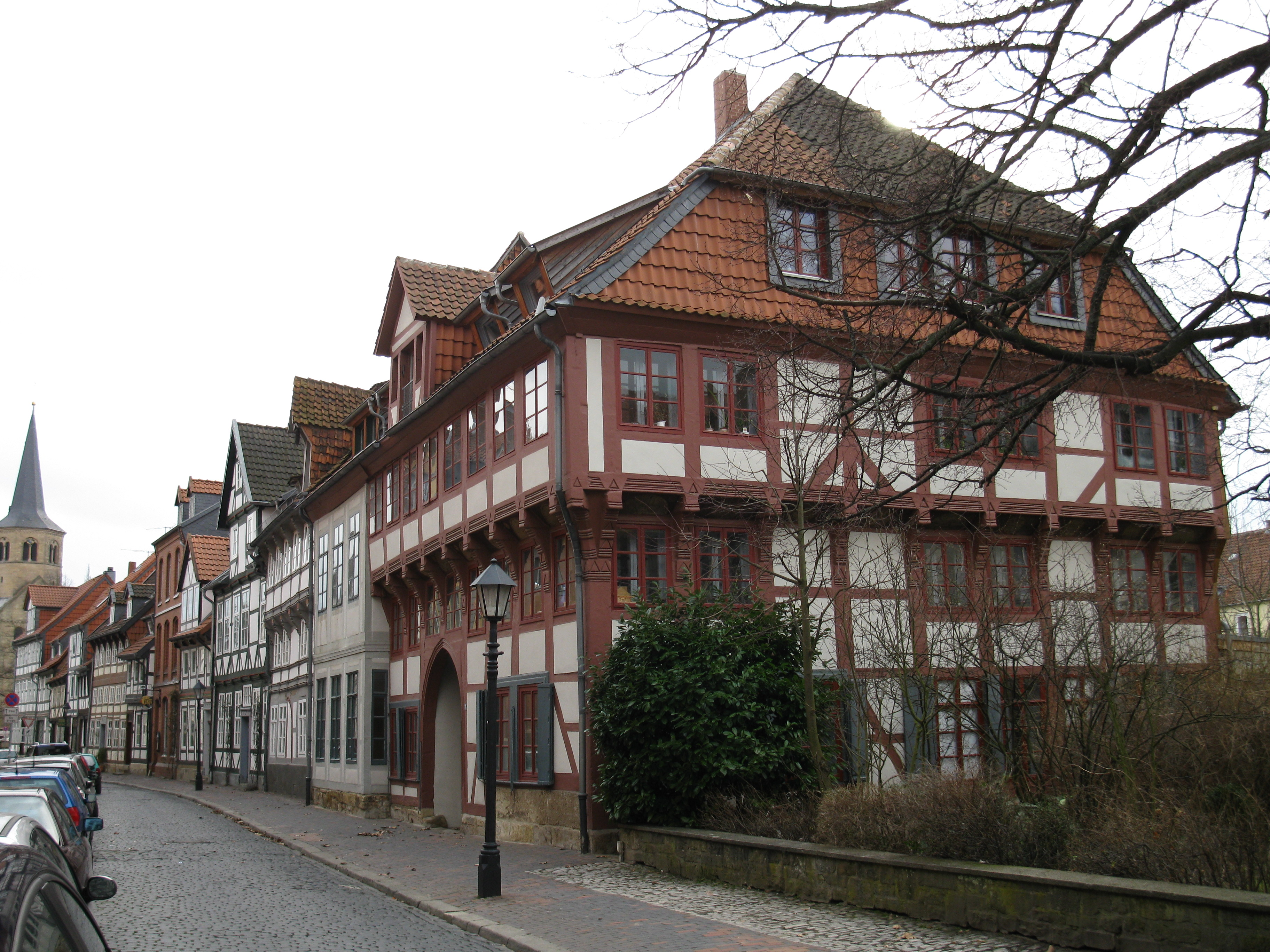 Brühl Street, Hildesheim